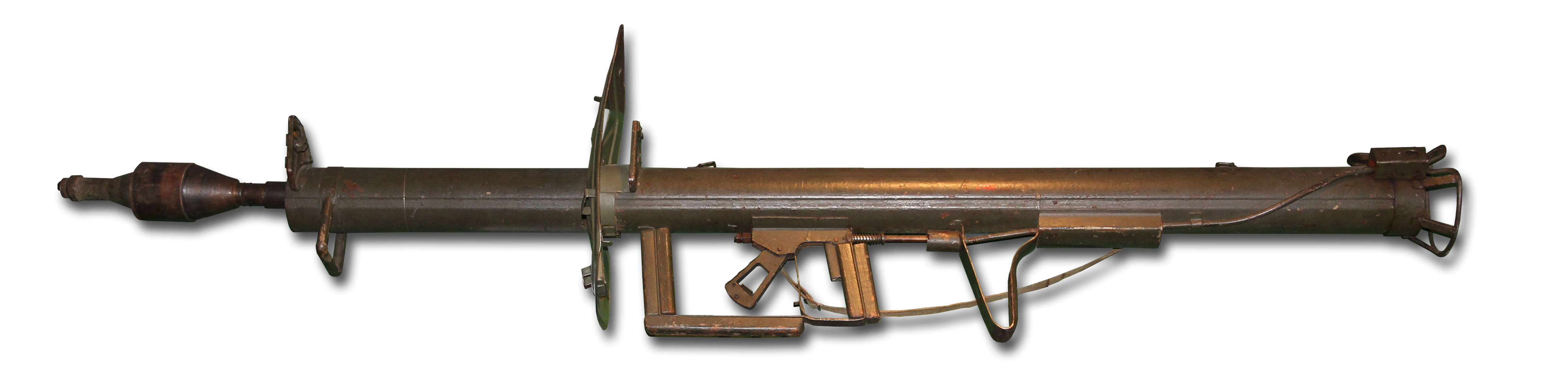 Panzerschreck photographed in Mikkeli infantry museum.